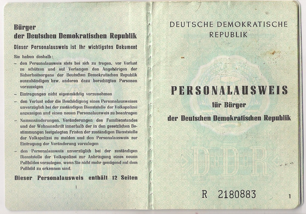 East German identity card